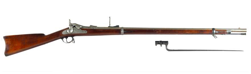 A Springfield Model 1873 manufactured at Springfield Armory along side with socket bayonet.